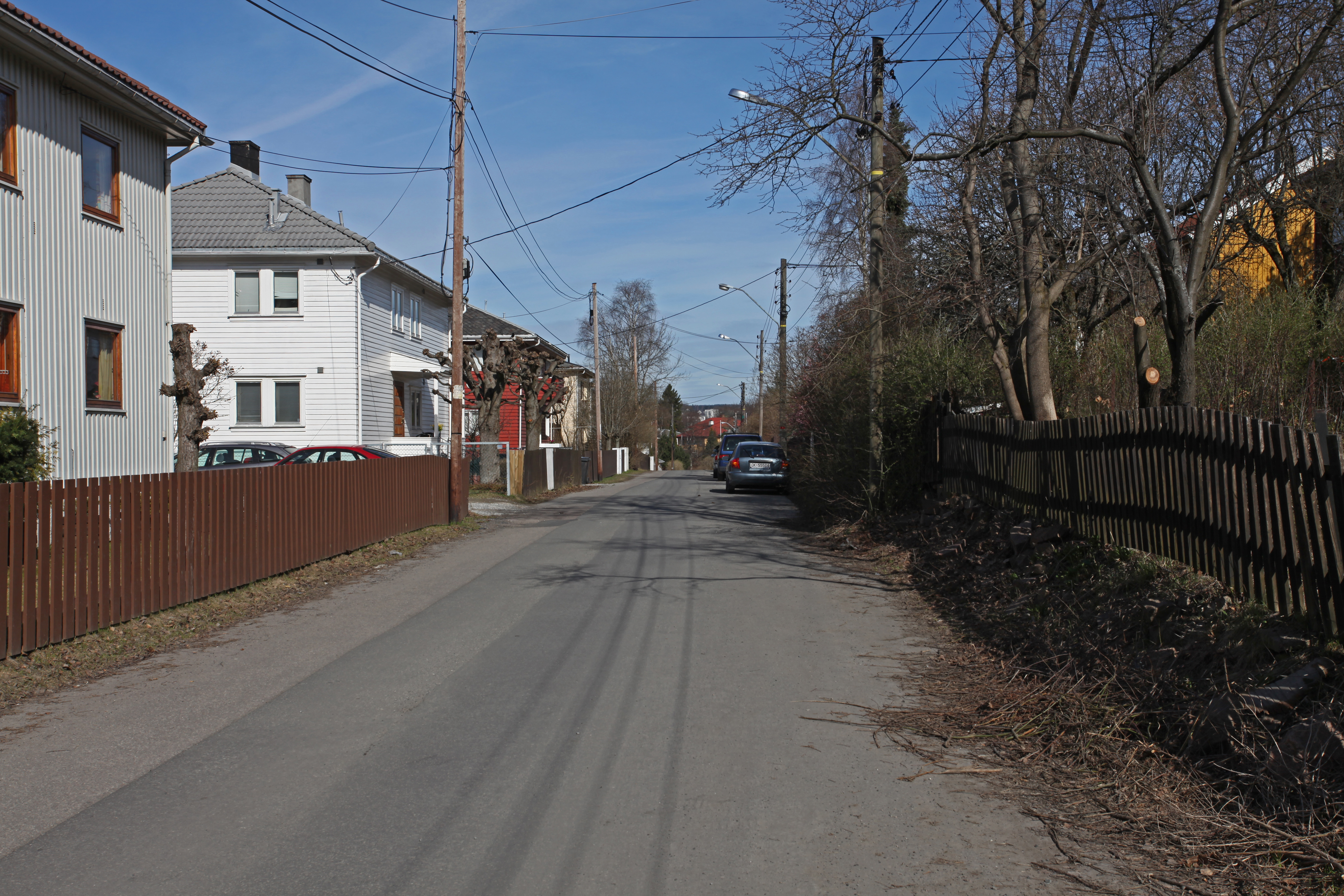 Picture of Breisjåveien (Oslo - Norway)